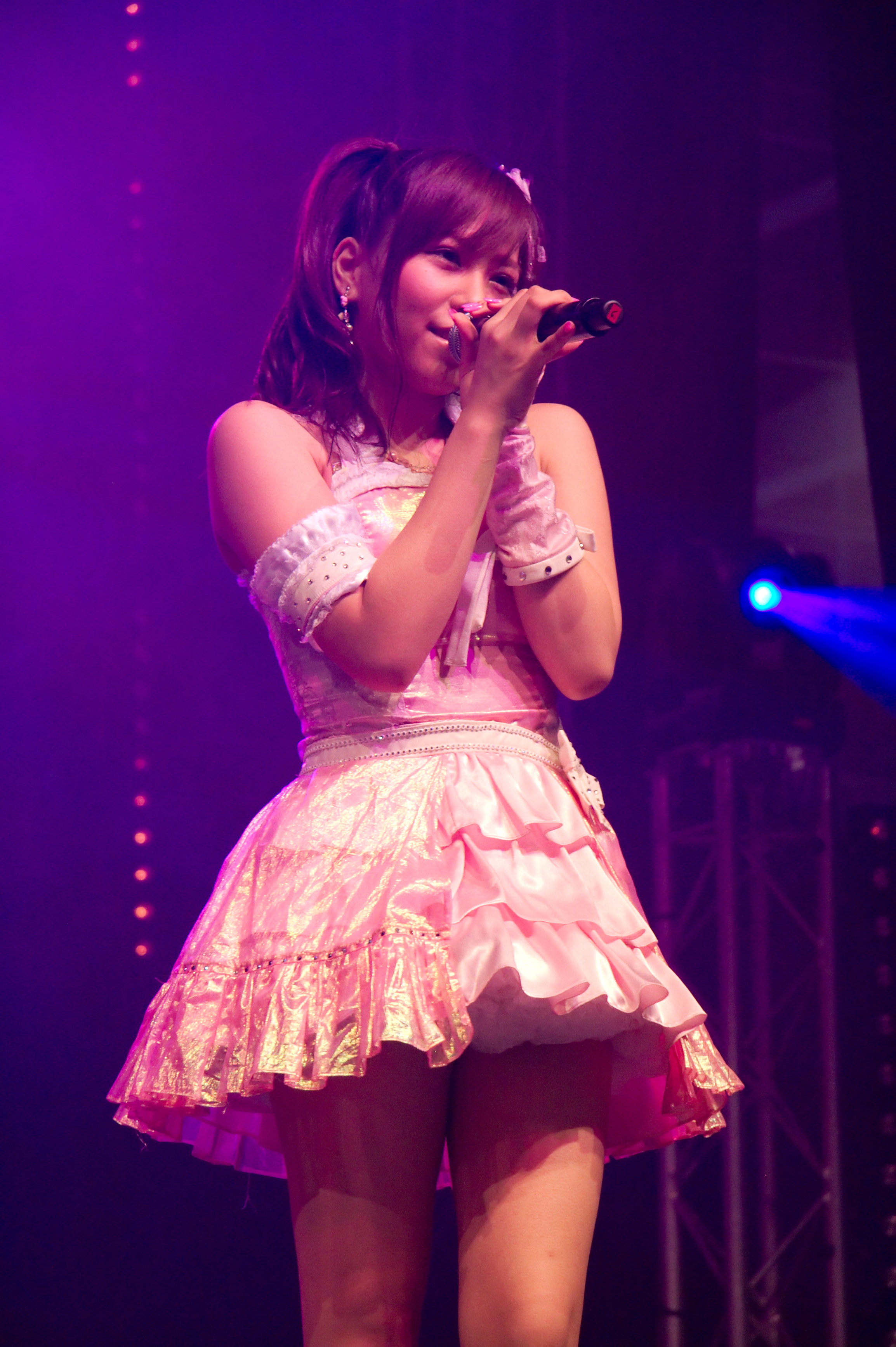 AKB48 live at Japan Expo 2009 (Paris, France).